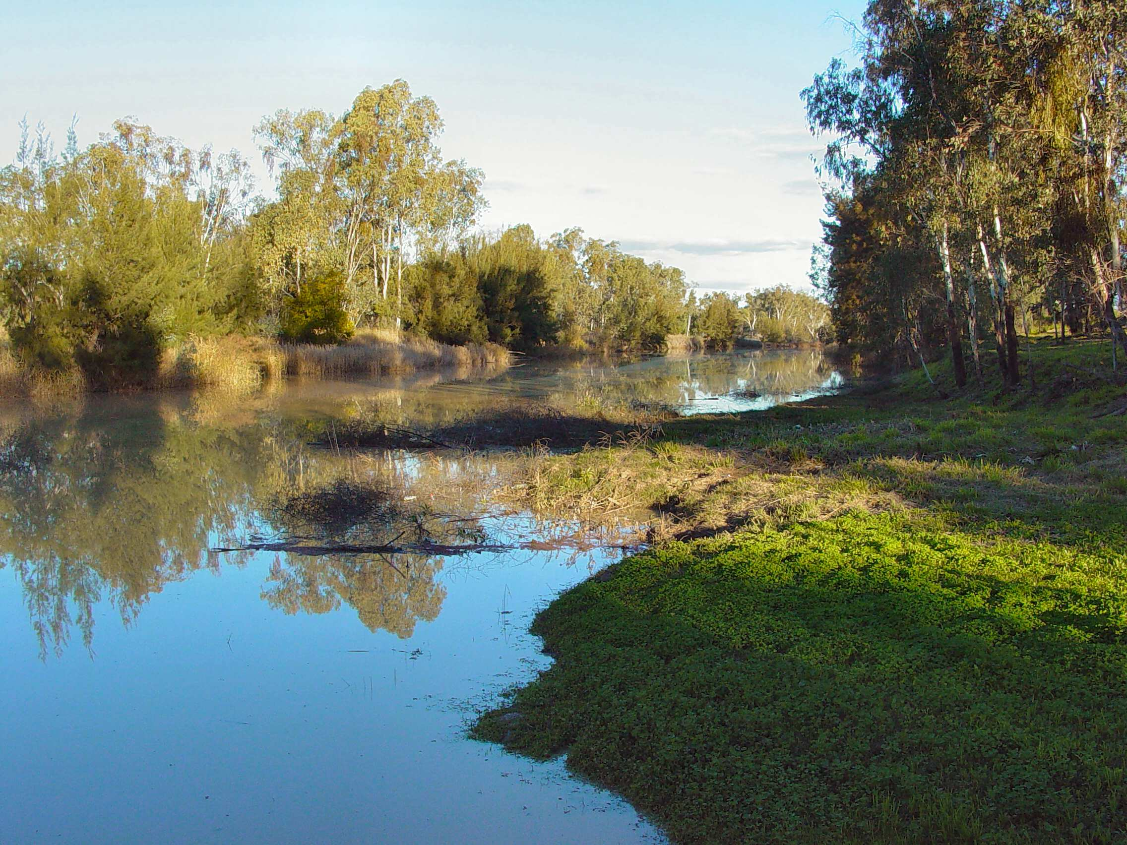 Photo taken and suppied by Brian Voon Yee Yap. Looking downstream on the Maranoa River at Mitchell.